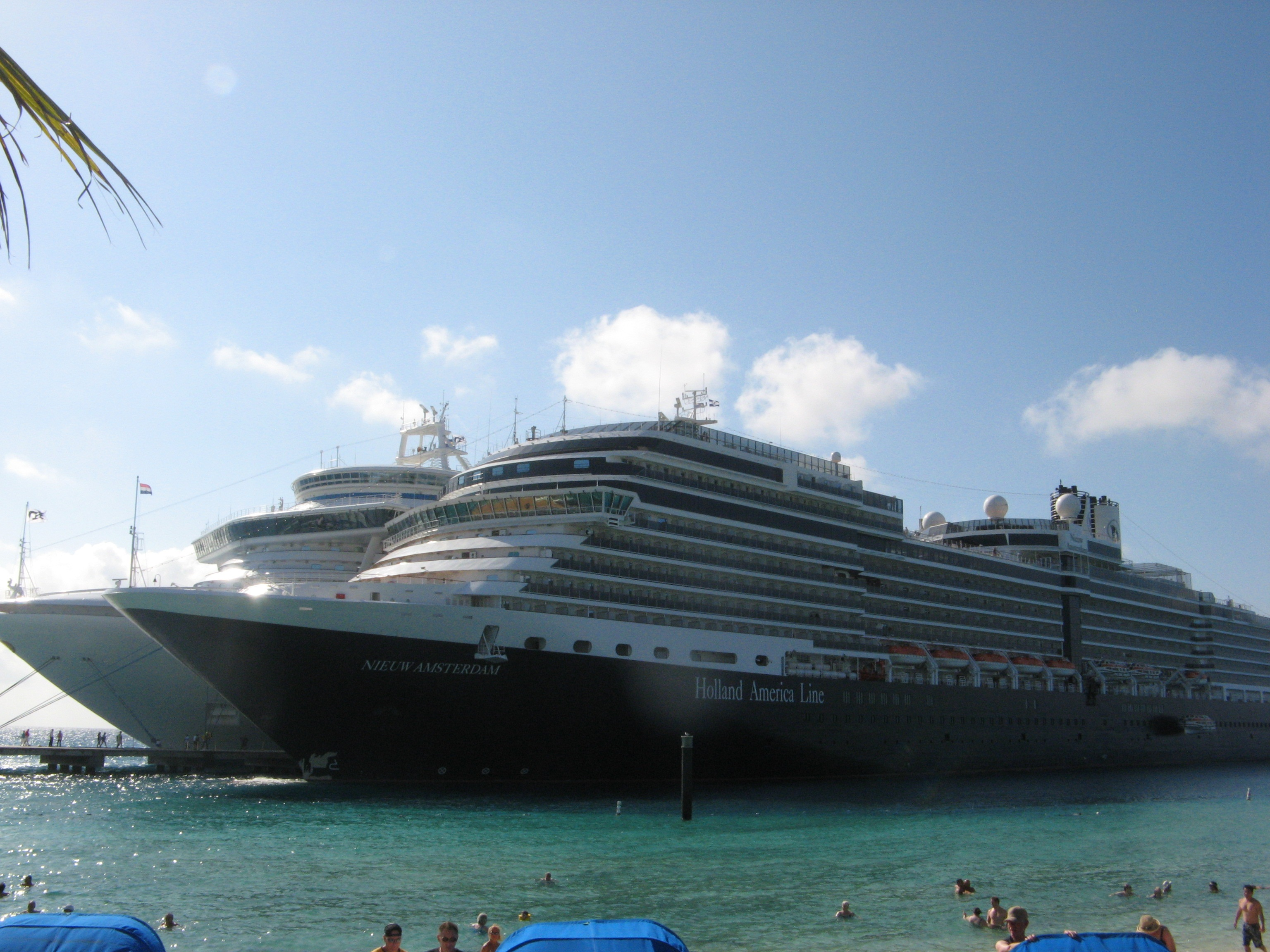 MS Nieuw Amsterdam: digital photo taken on January 28, 2011 while the ship was docked at Grand Turk, Turks and Caicos Islands. The other ship behind it is the Ruby Princess.